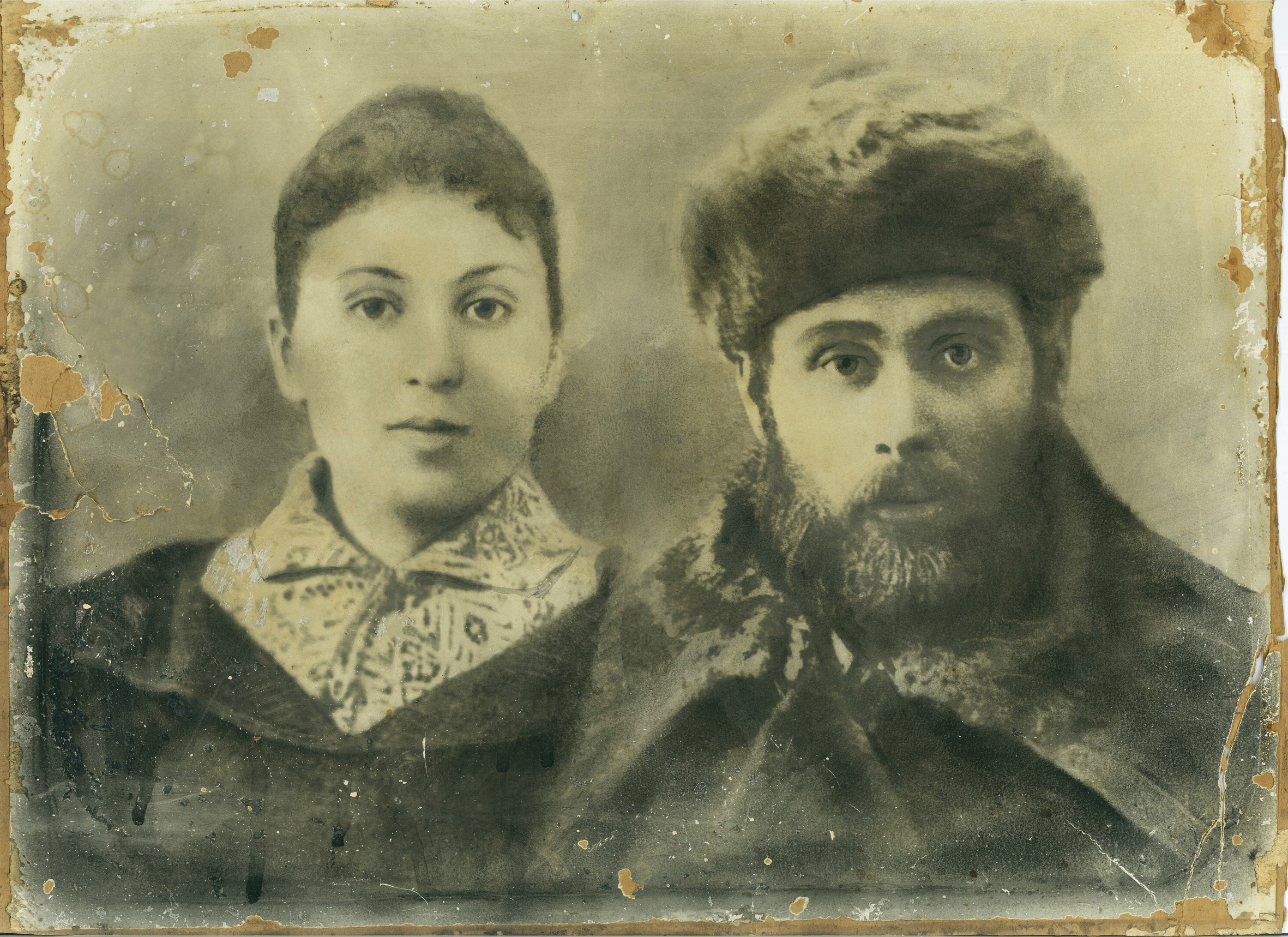 RABI YAAKOV SHIMCHA RITOV AND ELKA RITOV ( BORN SOLOWEITIK ) AT OSIPOWITZ 1910